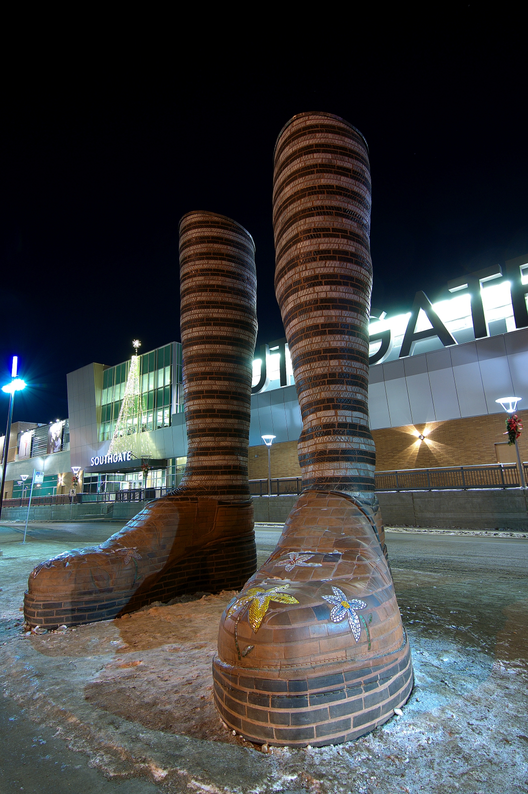 "Immense Mode" sculpture at Southgate Transit Centre, Edmonton